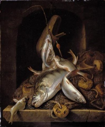 A still life of freshwater fish and fishing nets, piled high on a stone ledge in a niche